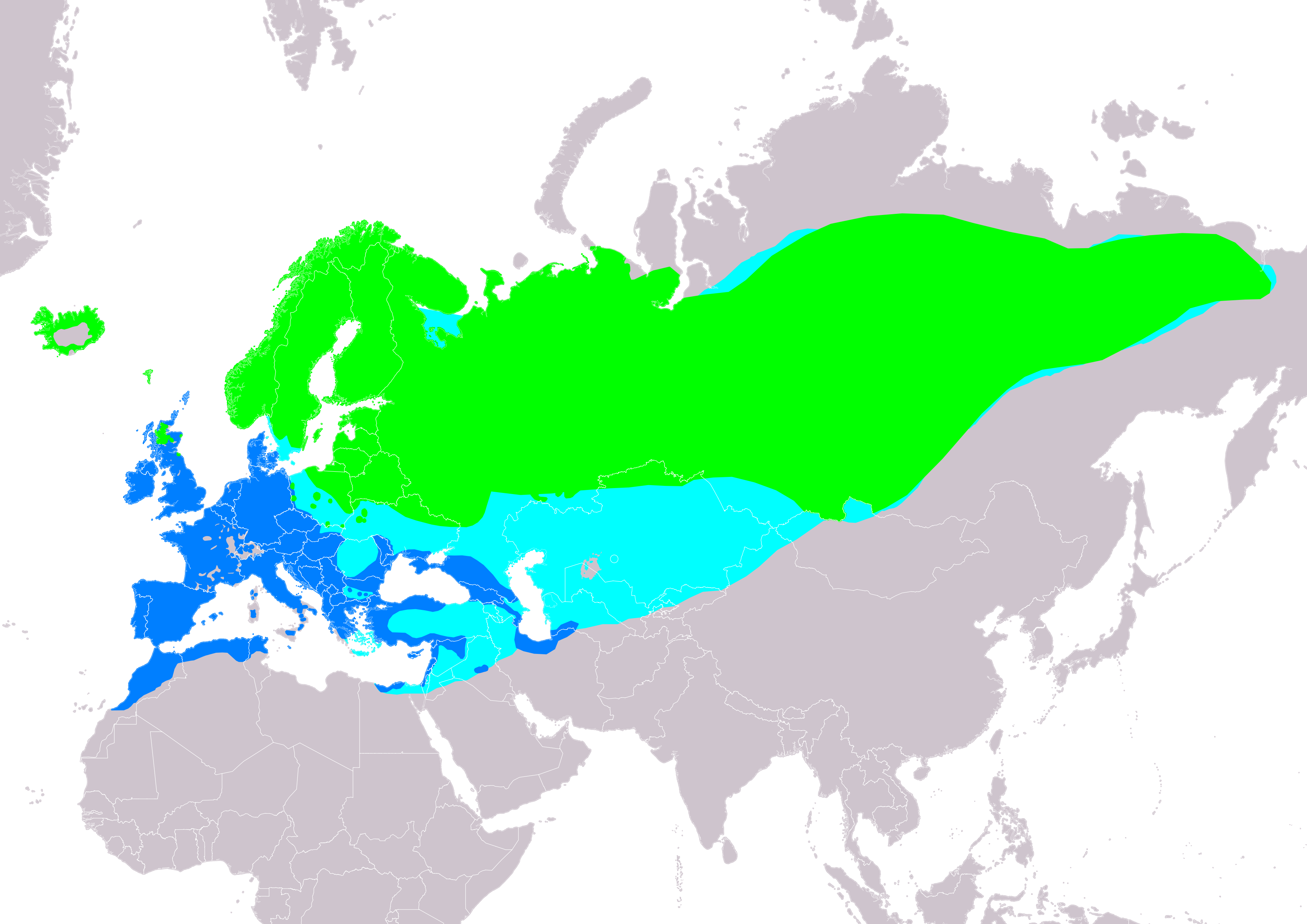 Distribution map of redwing (Turdus iliacus) according to IUCN version 2020.1; key: Legend: Extant, breeding (#00FF00), Extant, passage (#00FFFF), Extant, non-breeding (#007FFF)